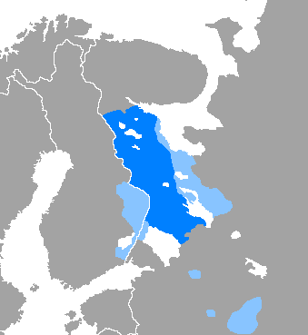 Historical extent of the Karelian language